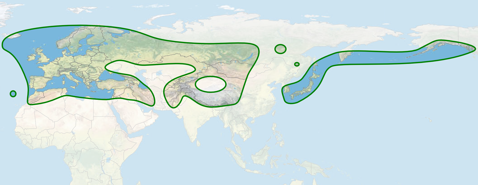 Range map of the genus Dactylorhiza using data from Averyanov (1990): A review of the genus Dactylorhiza, Pridgeon, Cribb, Chase, Rasmussen (2001): Genera Orchidacearum Vol. 2, Vakhrameeva, Tatarenko, Varlygina, Torosyan, Zagulskii (2008): Orchids of Russia and Adjacent Countries.